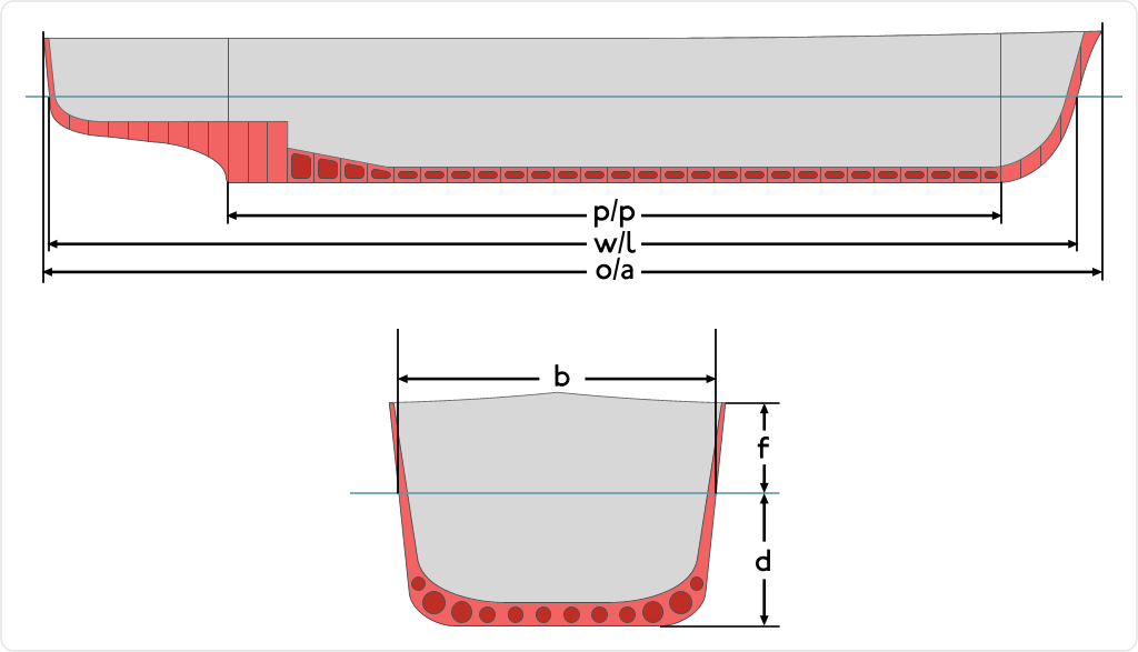 measurements used to describe dimensions of a ship